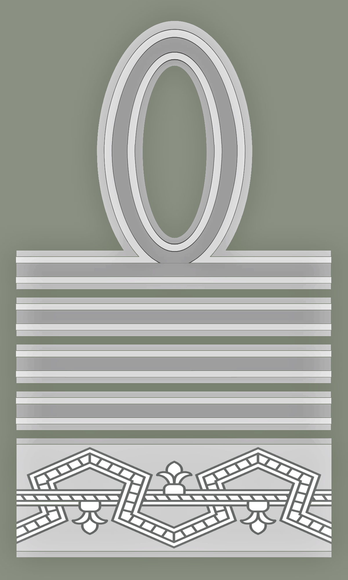 insignia for the sleeves of the rank of "maresciallo d'Italia" of the Italian Army (1940)